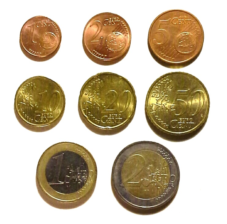 Euro coins